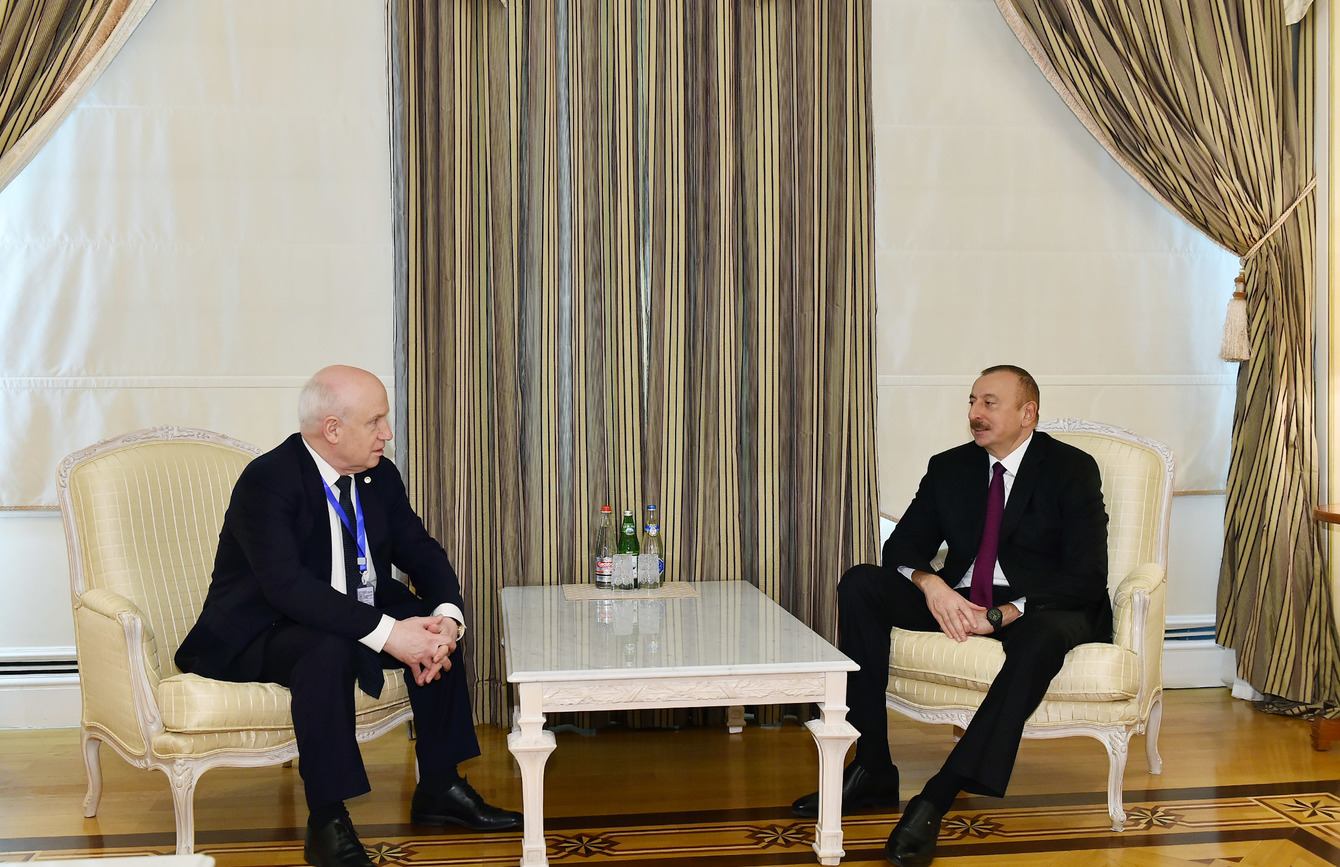 Ilham Aliyev received delegation led by chairman of CIS Executive Committee